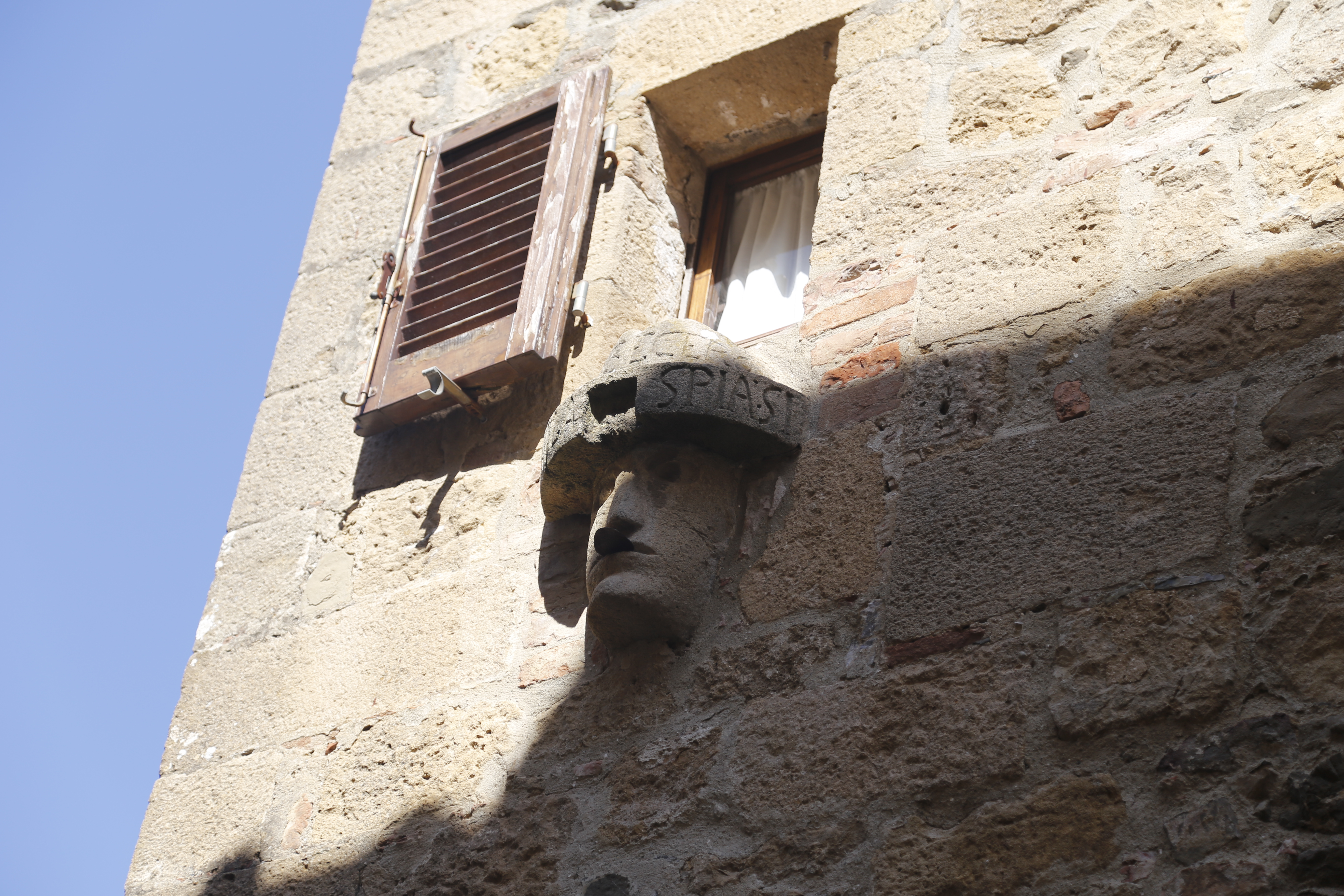 Monticchiello